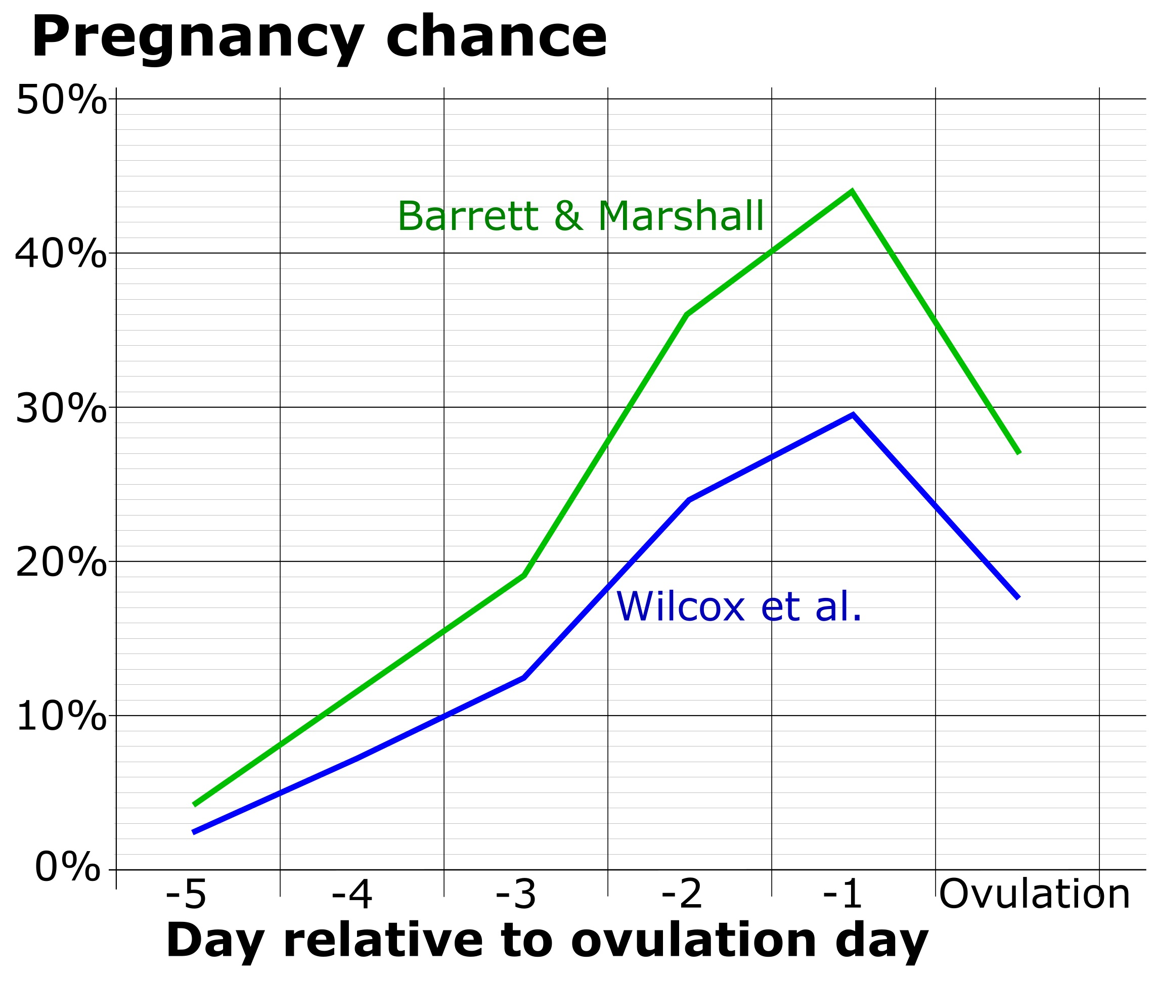 Chance of fertilization by menstrual cycle day relative to ovulation, with data from two different studies. Reference: (1999). "Day-specific probabilities of clinical pregnancy based on two studies with imperfect measures of ovulation". Human Reproduction 14 (7): 1835–1839. ISSN 1460-2350.